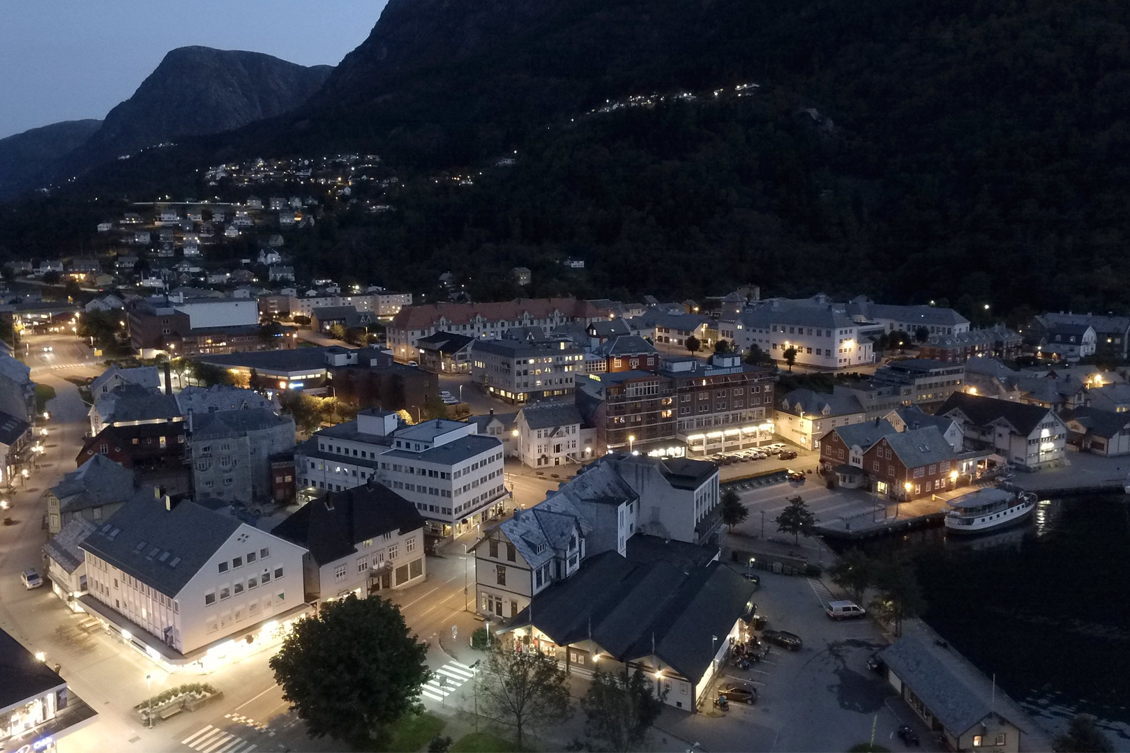 Taken with DJI Pantom 3 Standard.